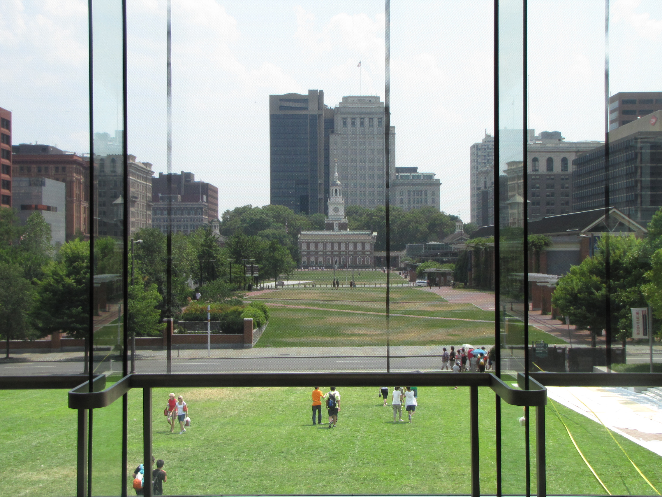 Independence National Historical Park, Philadelphia